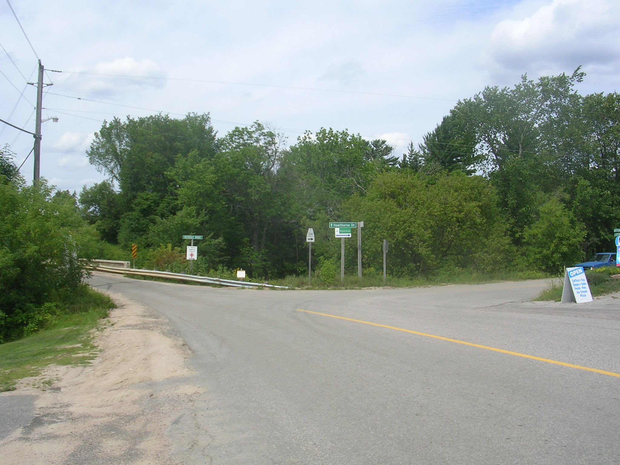 Ontario Highway 534 in Restoule, at the Restoule River bridge (Hawthorne Drive).